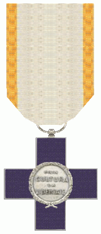 Ordinul "Meritul Cultural" Order of Cultural Merit Romenia before 1947